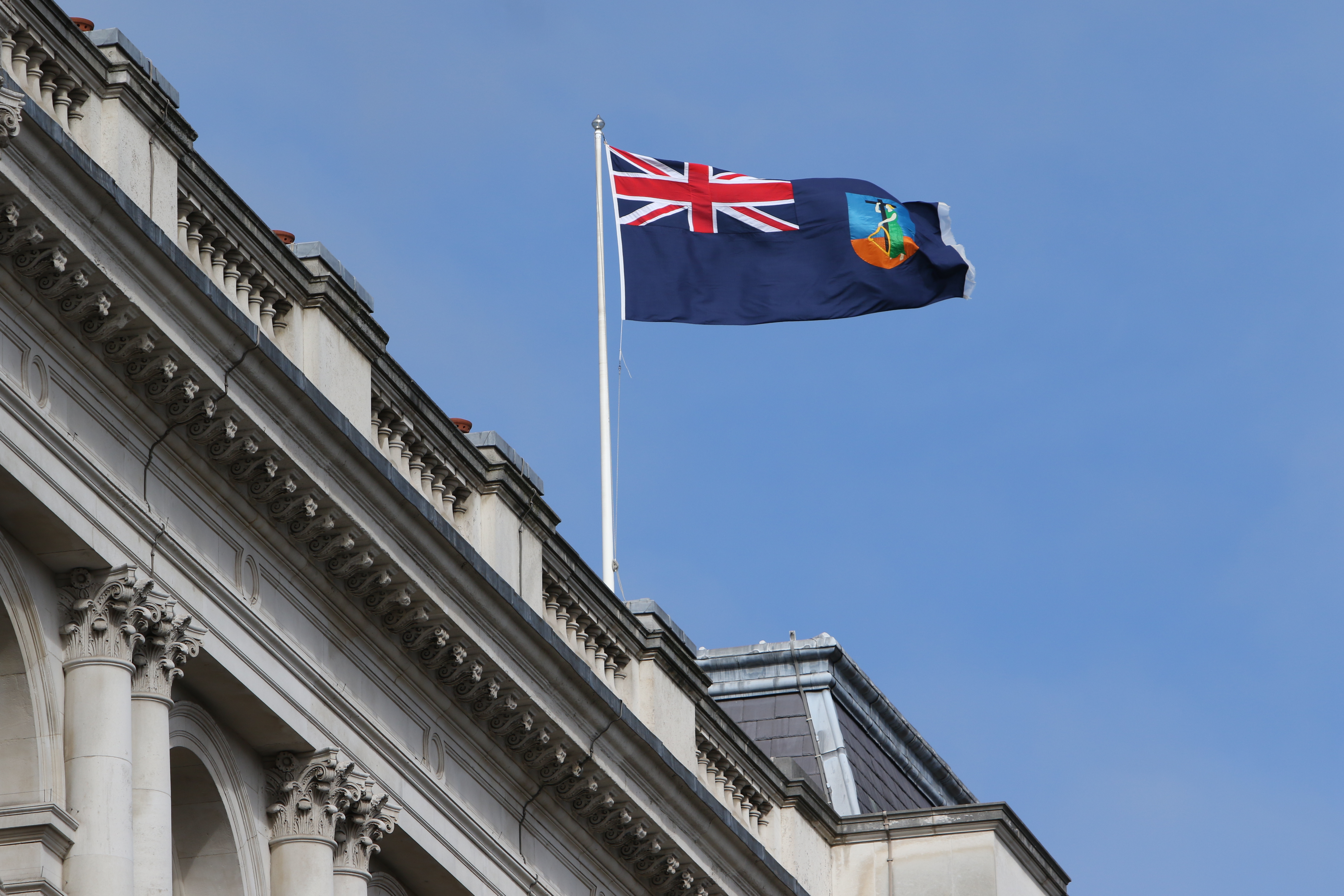 The flag of Montserrat is flying at the Foreign Office to celebrate St Patrick’s Day, 17 March 2020. Apart from Ireland, Montserrat is the only country to celebrate a public holiday on this day in recognition of its Irish roots and designation as the “Emerald Isle of the Caribbean”.